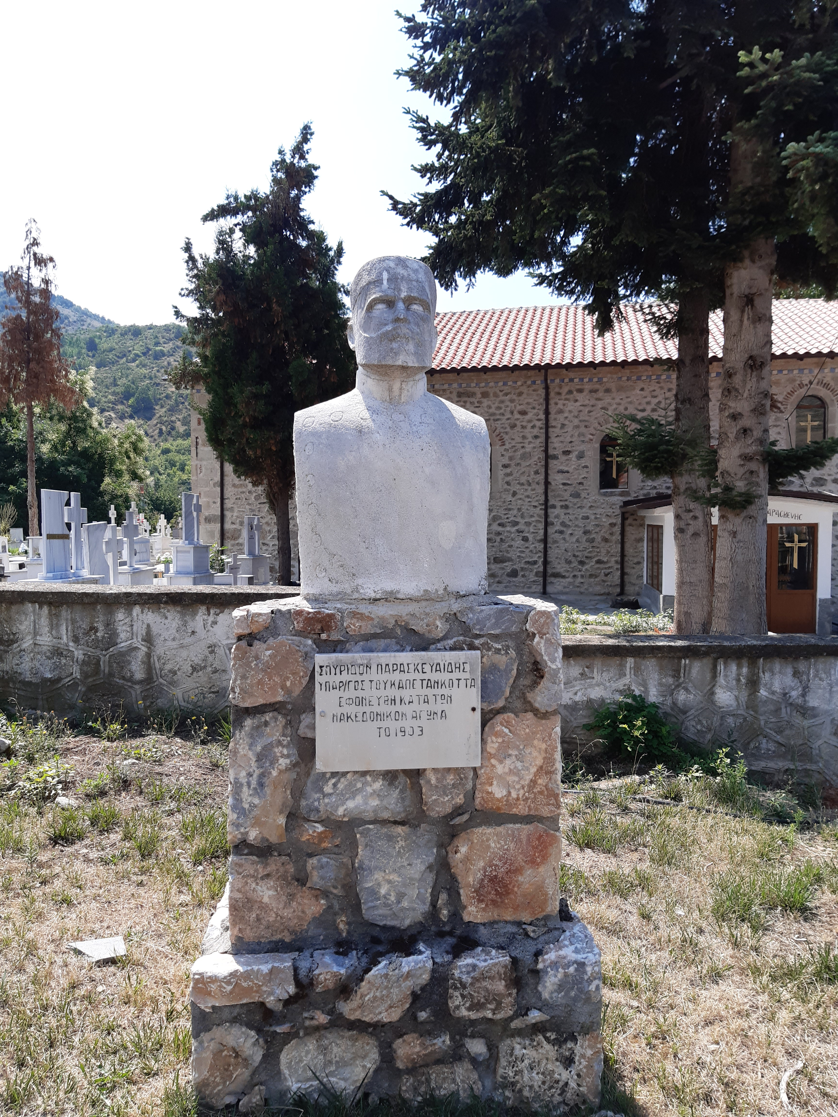 Spiro Prespancheto Bust in Rambi Laimos in August 2020